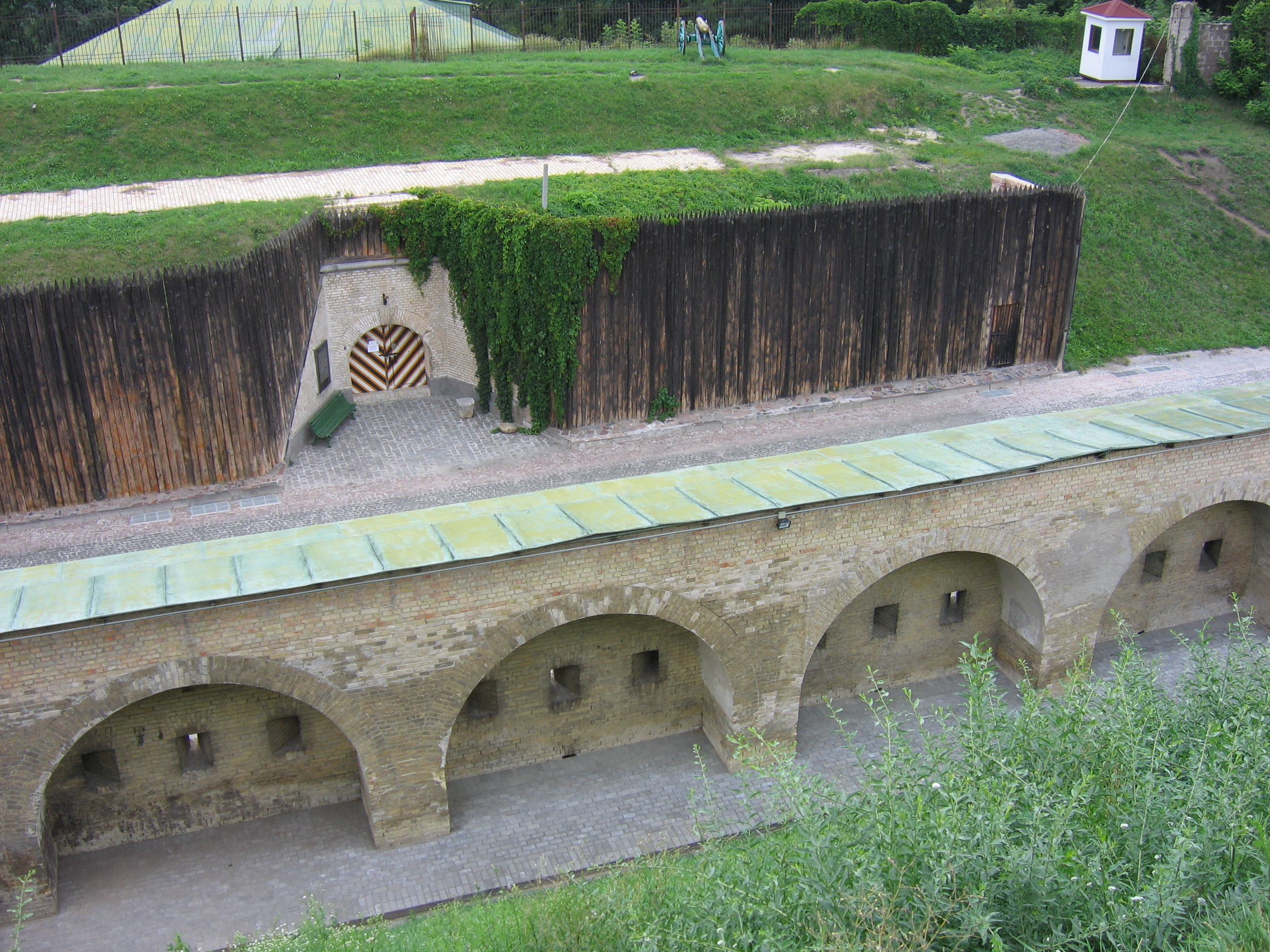 Kiev fortress in Kiev, Ukraine